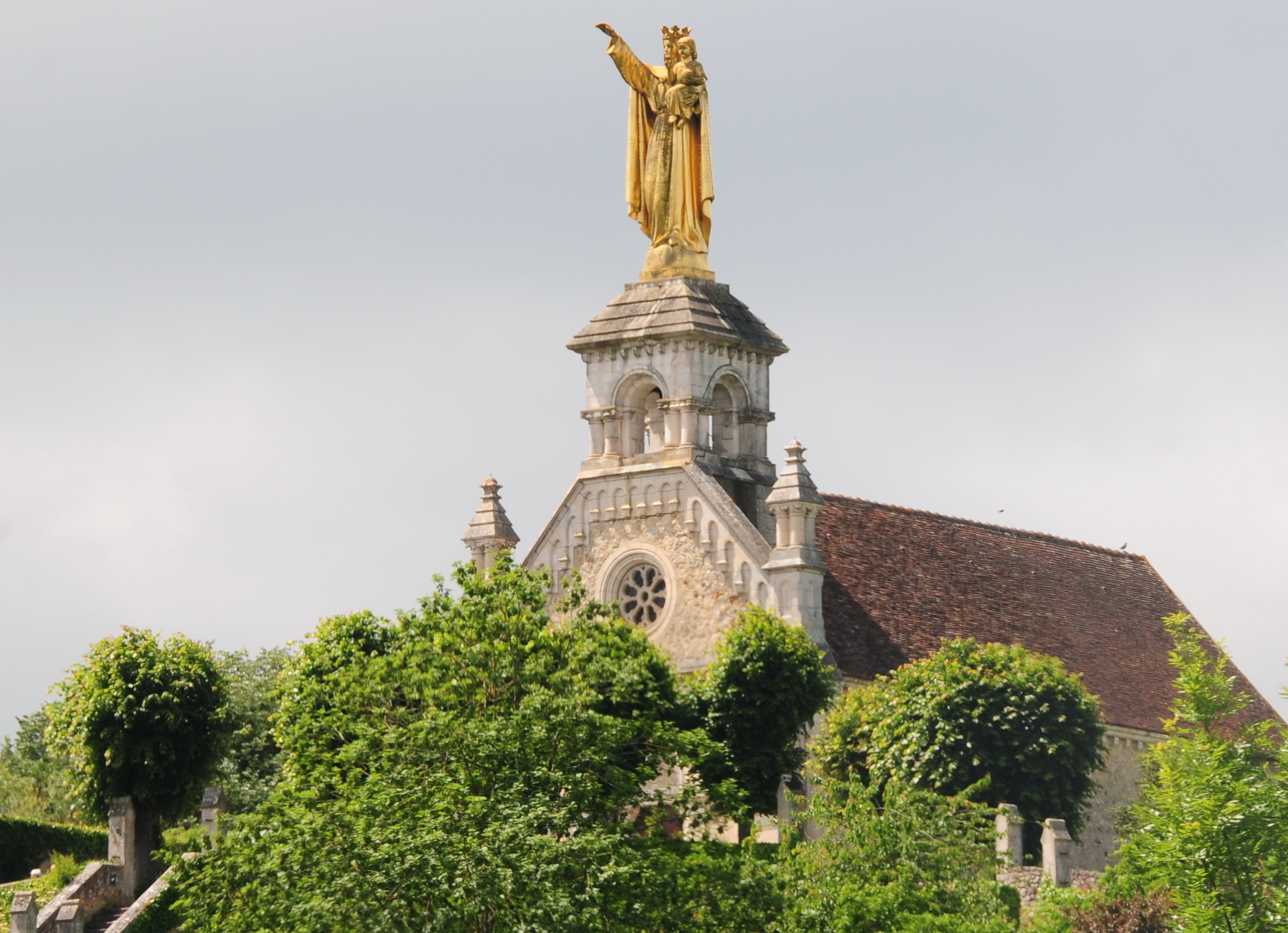 Maria with child at a high located church at Argenton-sur-Creuse